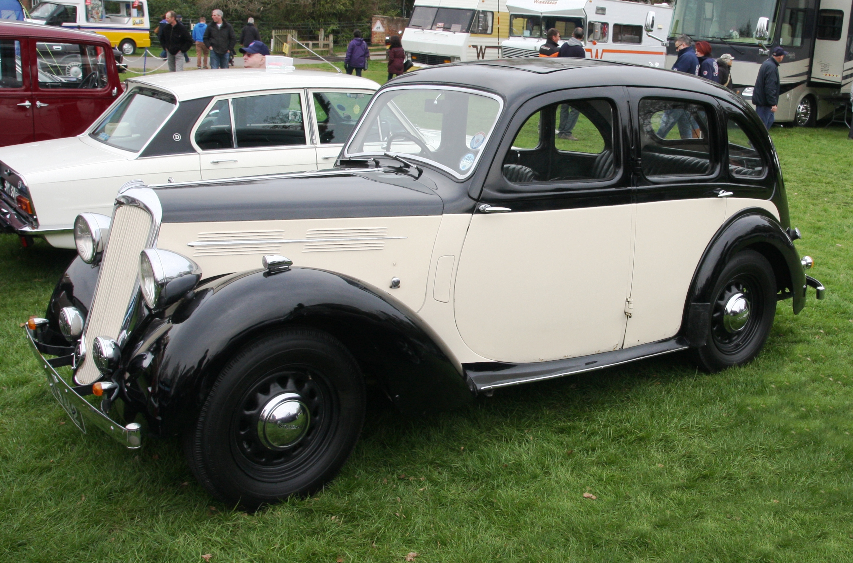 Standard 12 at Weston Park on Easter Sunday